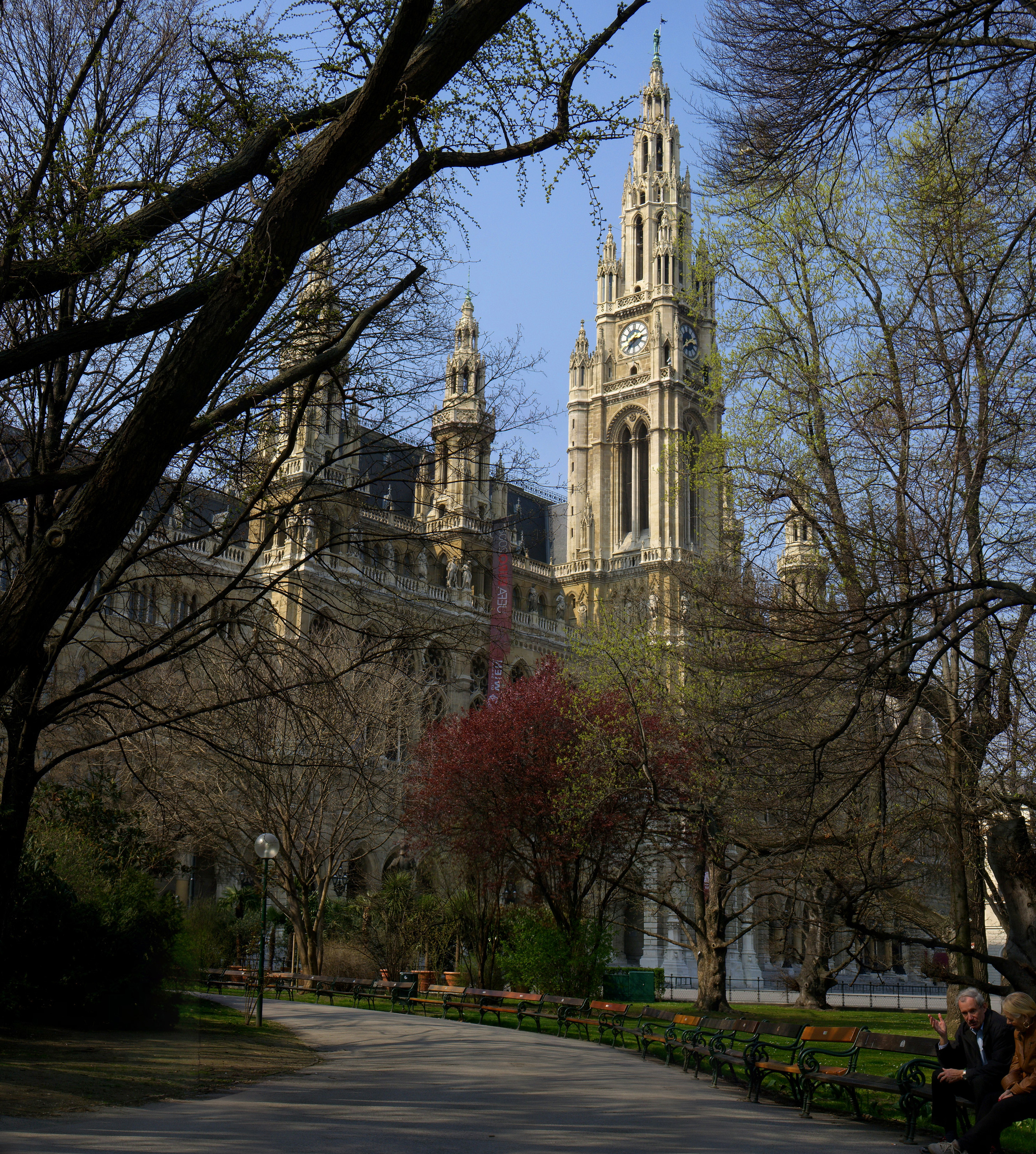 The Rathaus (city hall) in Vienna, Austria as seen from the Rathauspark. This is a segmented Panorama.